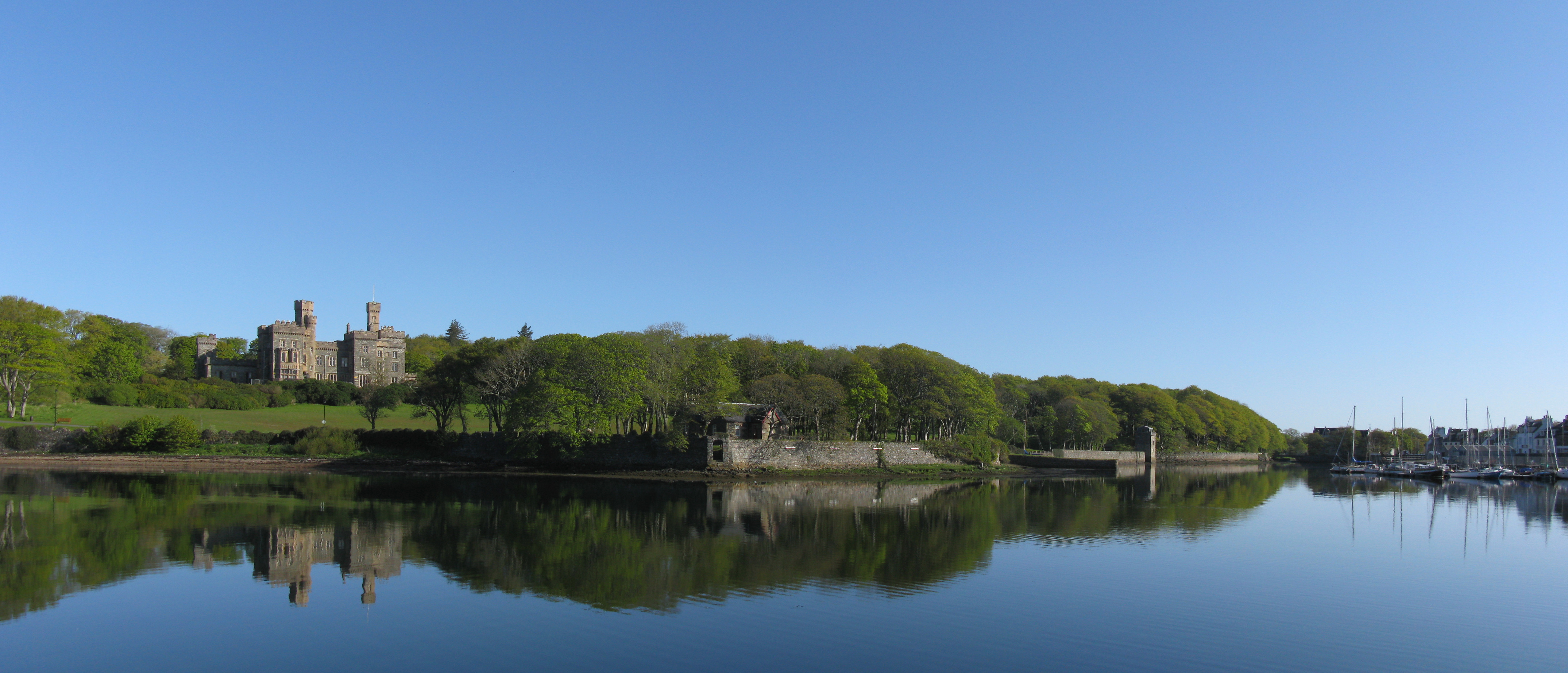 Looking North North West from just East of the Fish Market.